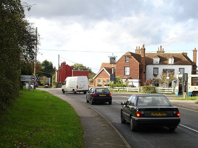 Five Wents. It's fairly easy to understand the name from the map but the fifth "went" 68180 is out of sight in this shot. This busy junction is the B2163 crossing the A274 Sutton Road by the Plough public house.